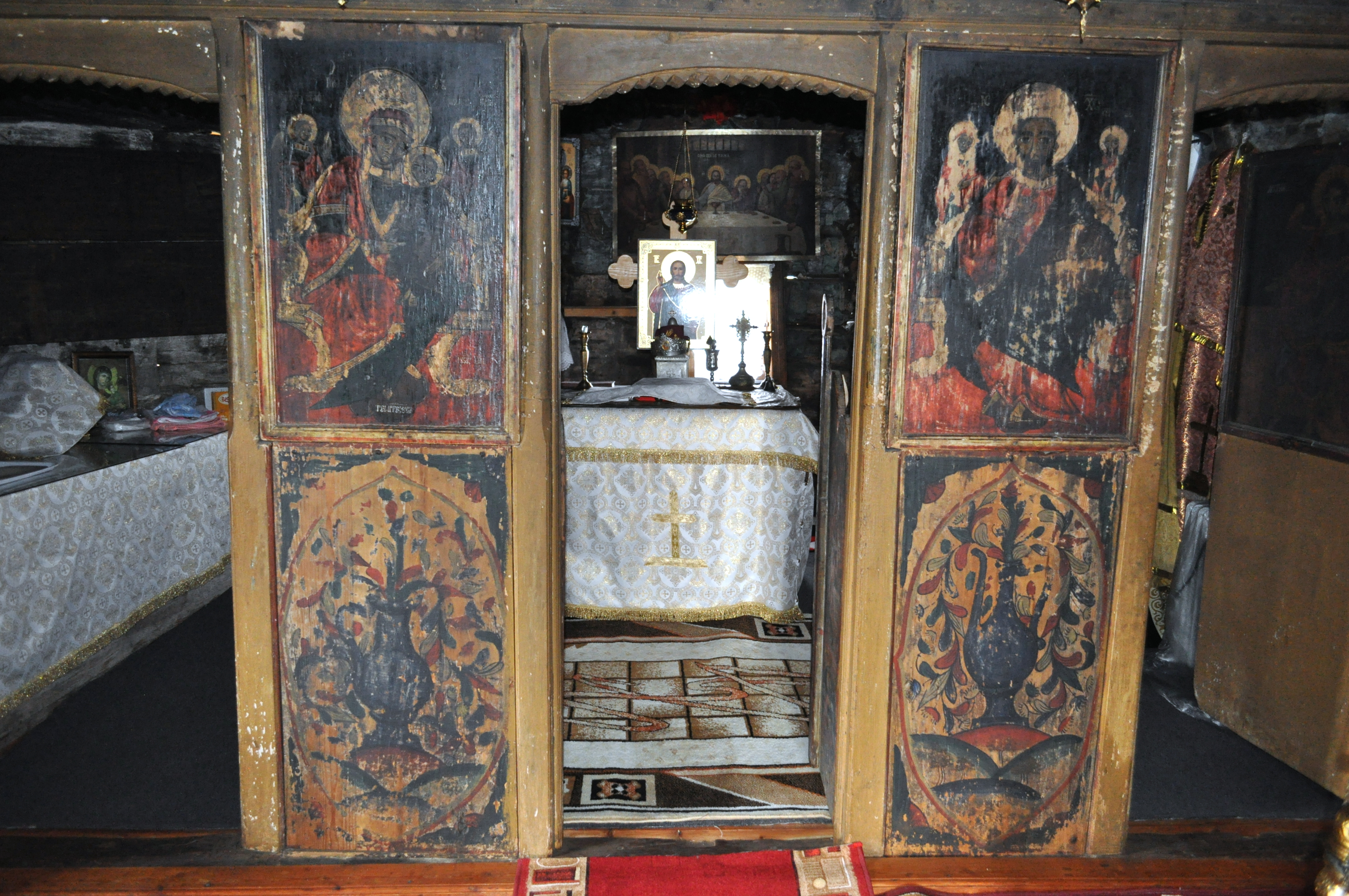 Wooden church in Horezu, Gorj county, Romania